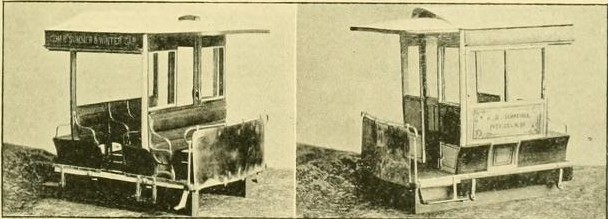 Title: The street railway review Year: 1891 (1890s) Authors: American Street Railway Association Street Railway Accountants' Association of America American Railway, Mechanical, and Electrical Association Subjects: Street-railroads Publisher: Chicago : Street Railway Review Pub. Co Text Appearing Before Image: , NewYork; Charles T. Yerkes, Esq., president North Chi-cago Street Railway Company, Chicago; John B. Par-sons, Esq., vice-president and manager West ChicagoStreet Railway Company, Chicago; A. Langstaff John-ston, C. E., Richmond, Va.; J. Vernon Campbell, Esq.,Baltimore, Marjland; E. S. Moffat, Esq., superintendentLackawanna Iron and Steel Company-, Scranton, Pa., andmany others. itSii S^mlM;&^ %rte«?:- 401 Coi;: Text Appearing After Image: Schneiders Combination Cars.lONSIDERABLE interest has been awakened oflate ill new styles of building street cars, growing)Ul of the great activit)- in railway constructionand the desire of new roads to put in service an equip-ment which shall please the fast-increasing great army ofriders. This has had a tendency to cause the old stylecars, which had for so long a time been considered prettynice, to gradually become back numbers, until now everymanager is anxious to iinpro\e and keep up with thetimes. To meet the demand from many roads for some methodof reconstructing their old cars, and also to accommodatethose smaller companieswho desire open andclosed cars but who donot feel justified in main-taining two full equip-ments of rolling stock,has lead J. G. Schneiderof Chicago to patent twotypes of adjustable car. One is the winter carwhich may readily be co.v.iii.vATioN close. converted to an open car by the removal of the outerpanels which are made in sections and held in place atthe